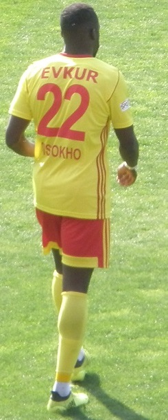 Aly Cissokho, French footballer.